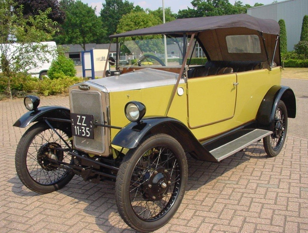 1923 Matchless Model K car with twin cylinder ohv boxer engine